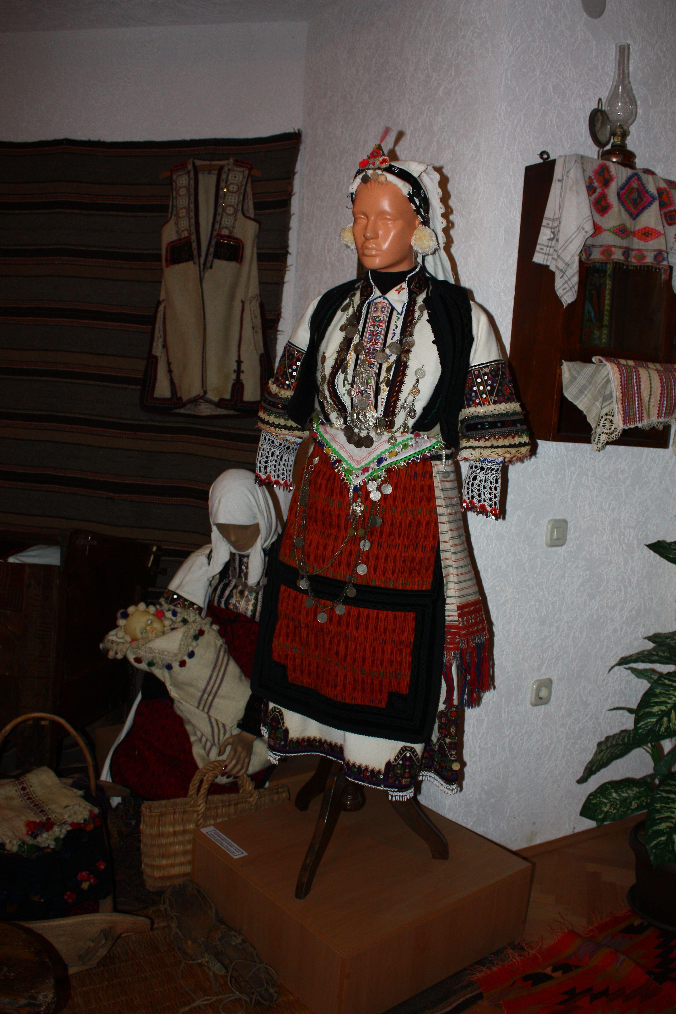 Ethnological Museum in Podmočani, Macedonia